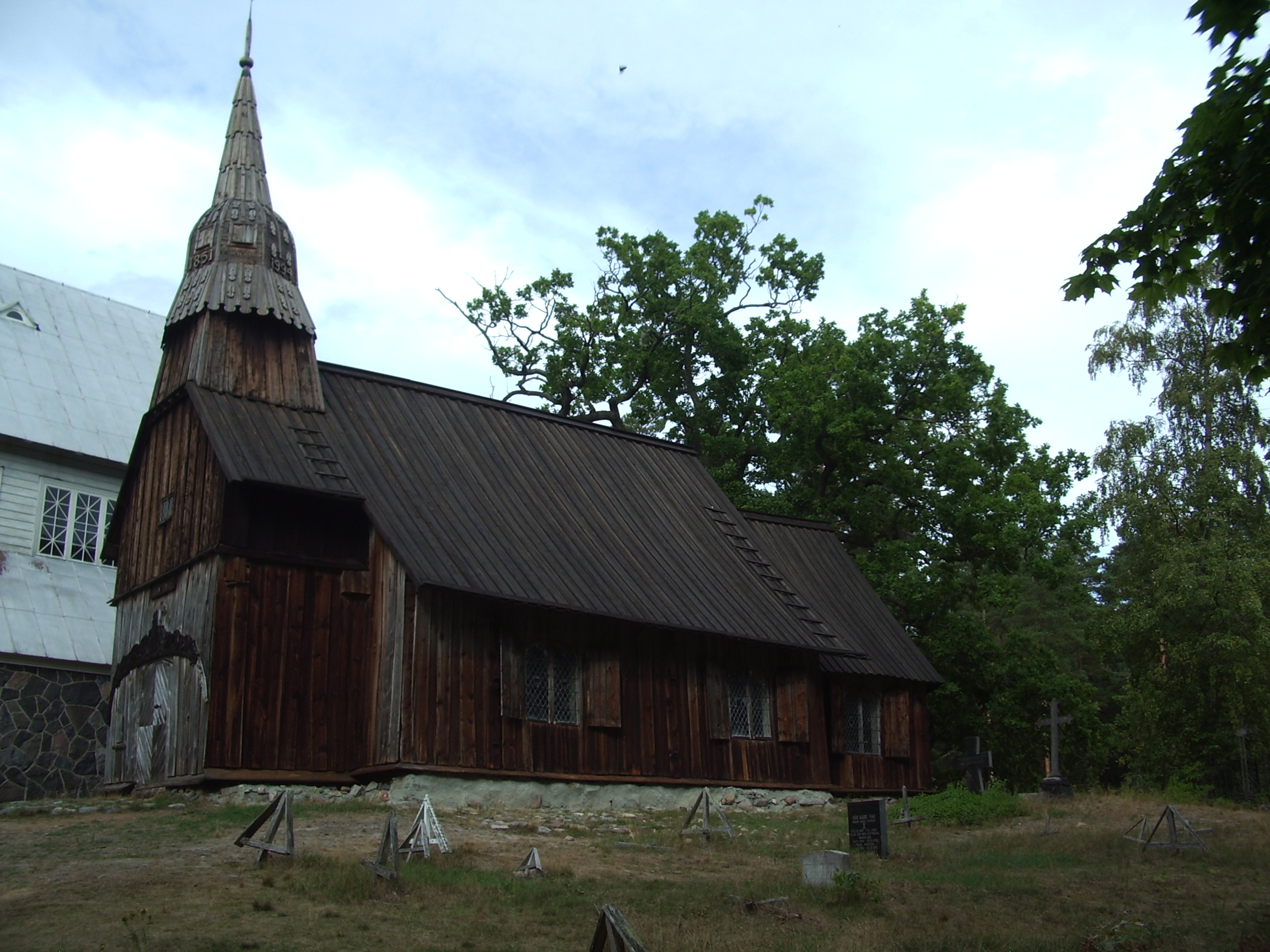 Ruhnu wooden church